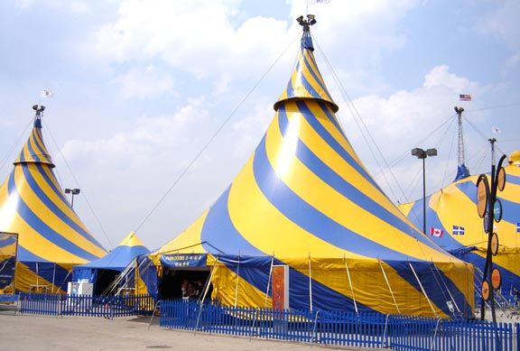 Columbus OH Cirque Du Soleil 05-28-07 By:Mike Sharp.